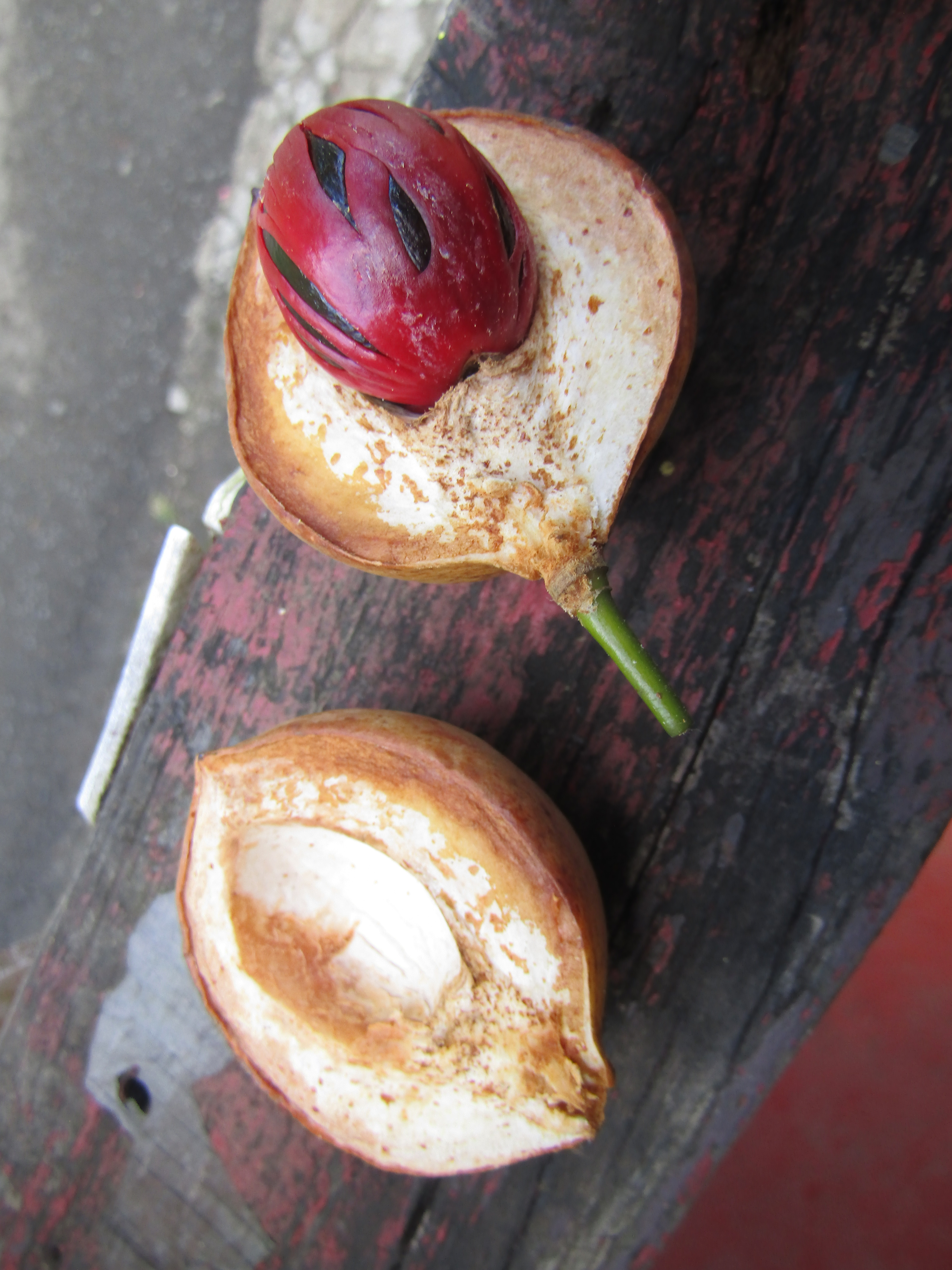 Nutmeg